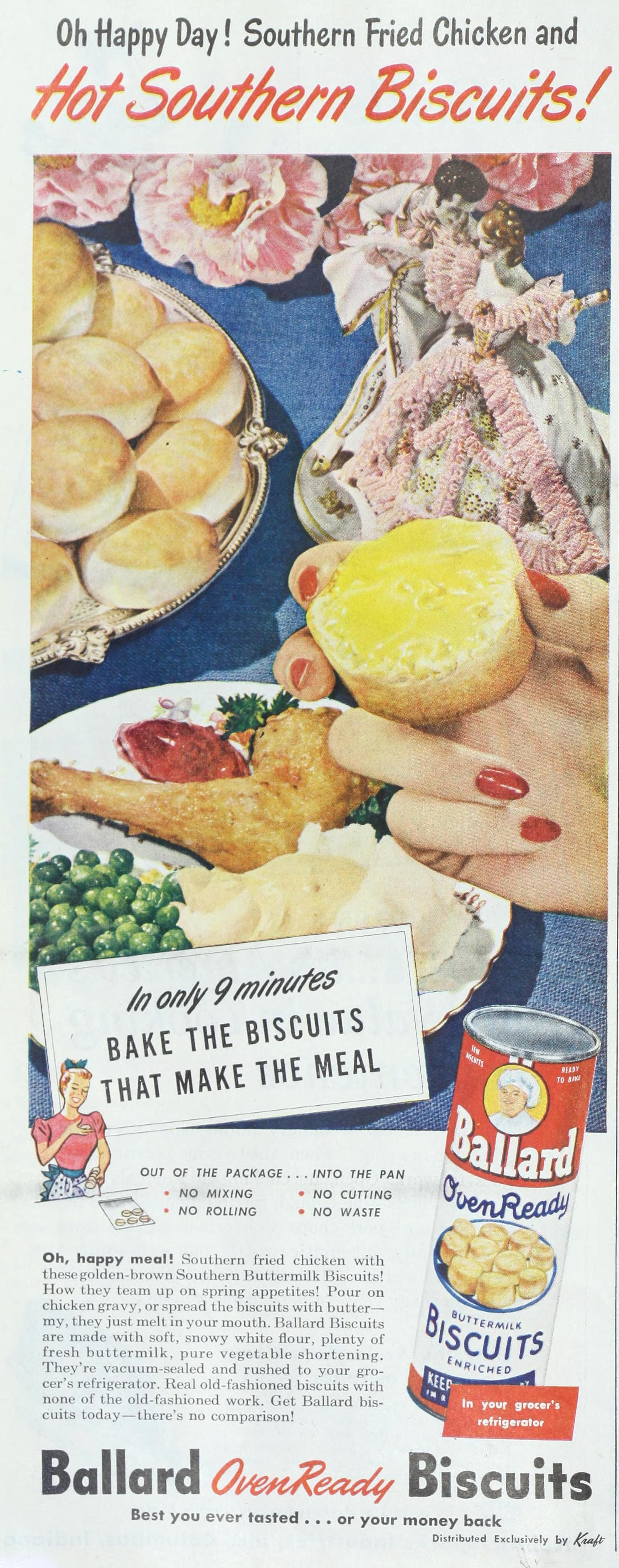 Title: The Ladies' home journal Year: 1889 (1880s) Authors: Wyeth, N. C. (Newell Convers), 1882-1945 Subjects: Women's periodicals Janice Bluestein Longone Culinary Archive Publisher: Philadelphia : (s.n.) Text Appearing Before Image: a/so makers of Arvin radios and electric heaters Noblitt-Sparks Industries, Inc., Columbus, Indiana • BOW AMERICA LIVES 240 LADIES HOME JOURNAL Apr: Oh flappy Day! Southern Fried Chicken and JfotSatdtem 8/scv/Ys/ Text Appearing After Image: OUT OF THE PACKAGE • NO MIXING • NO ROLLING . . INTO THE PAN • NO CUTTING • NO WASTE ^nRea^ Oh, happy meal! Southern fried chicken withthese golden-brown Southern Buttermilk Biscuits!How they team up on spring appetites! Pour onchicken gravy, or spread t he biscuits with butter^my, they just melt in your mouth. Ballard Biscuitsare made with soft, snowy white flour, plenty offresh buttermilk, pure vegetable shortening.Theyre vacuum-sealed and rushed to your gro-cers refrigerator. Real old-fashioned biscuits withnone of the old-fashioned work. Get Ballard bis-cuits today—theres no comparison!